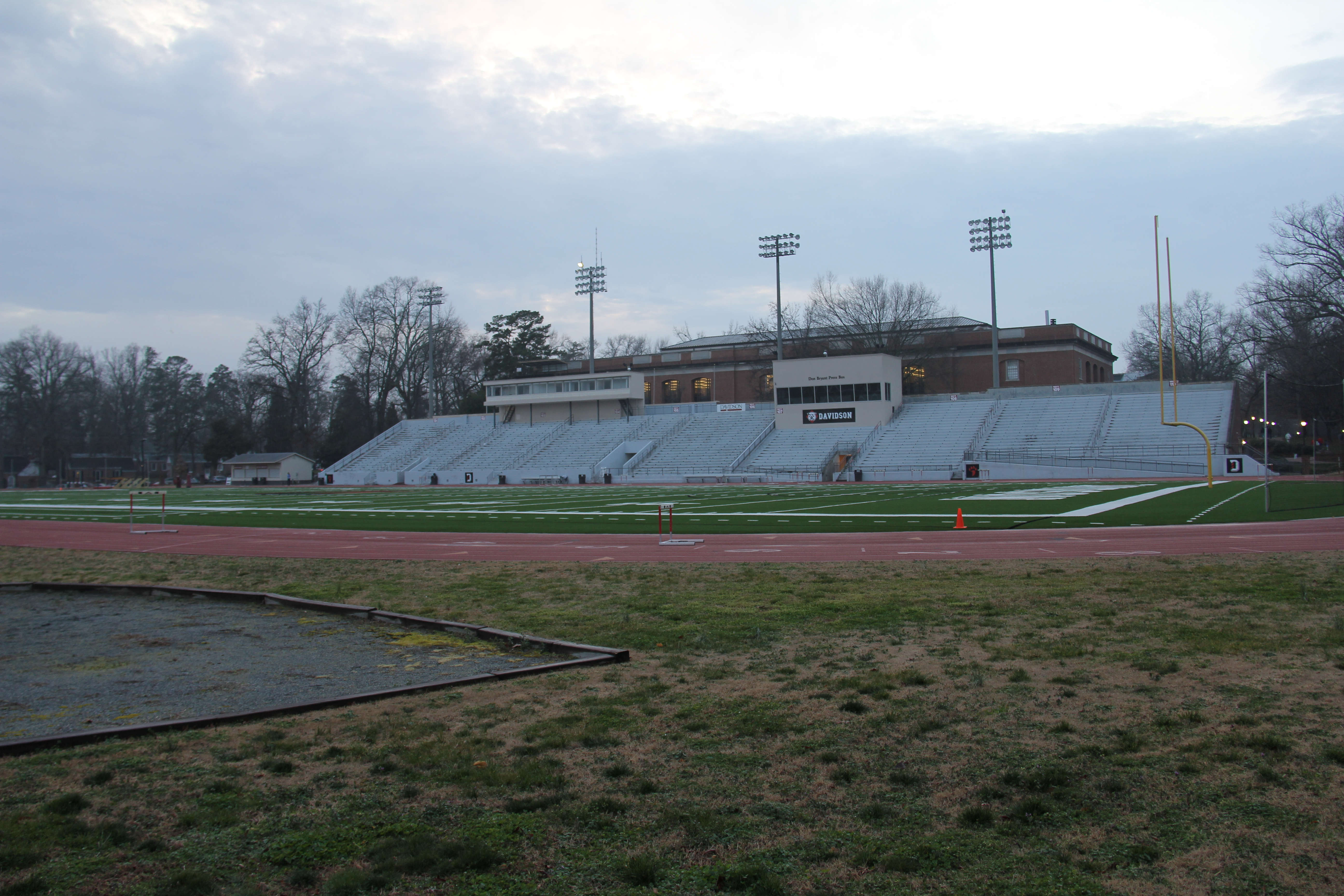 Football stadium at Davidson College, taken on a February afternoon.